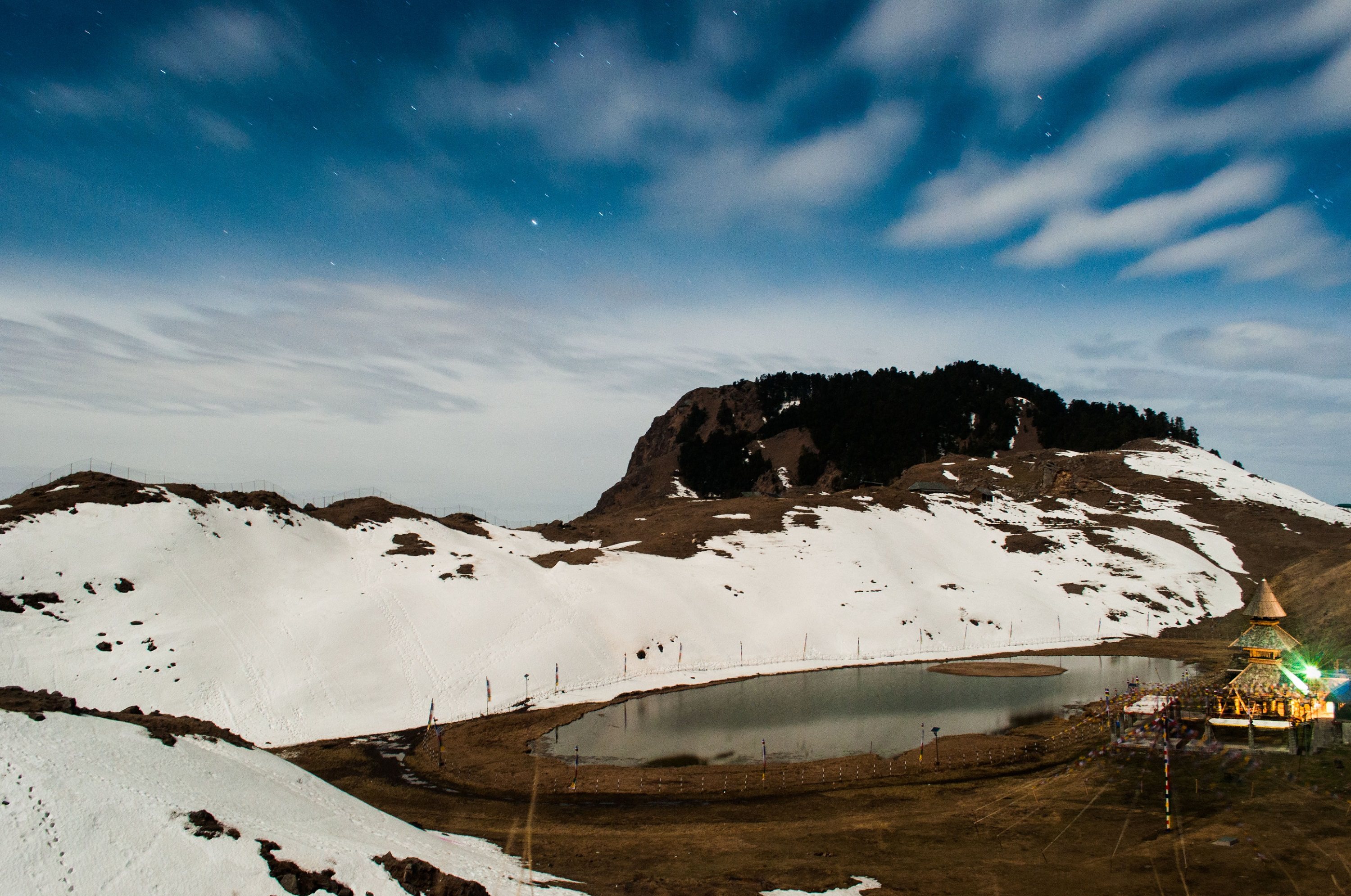 Prashar Lake lies 49 km north of Mandi, Himachal Pradesh, India, with a three storied pagoda-like temple dedicated to the sage Prashar. The lake is located at a height of 2730 m above sea level. With deep blue waters, the lake is held sacred to the sage Prashar and he is regarded to have meditated there. Surrounded by snow-capped peaks and looking down on the fast flowing river Beas, the lake can be approached via Drang. The temple was built in the thirteenth century and legend has it was built by a baby from a single tree. The lake has a floating island in it and it is said to be unclear how deep it is, with a diver not being able to determine its depth